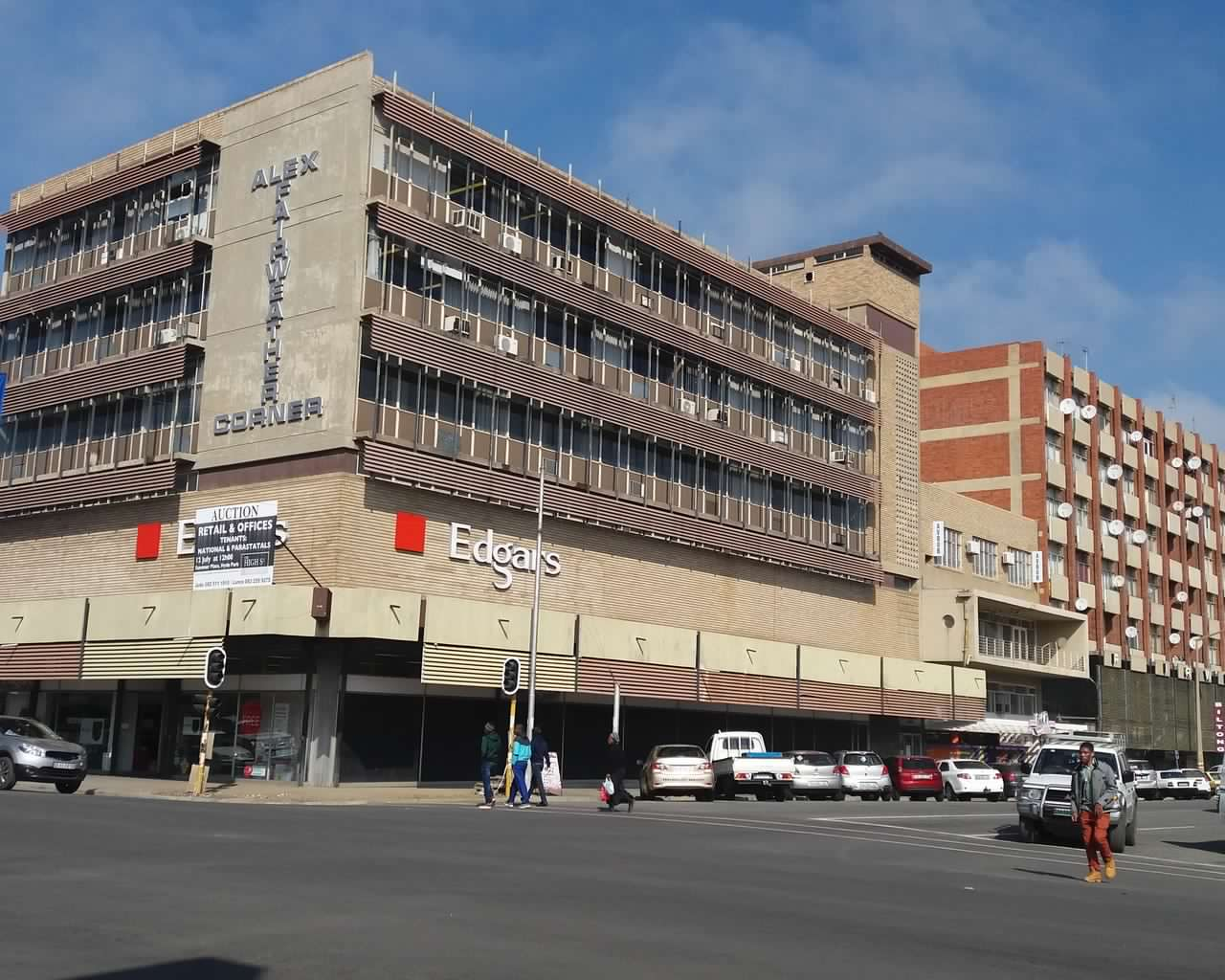 Kroonstad shopping